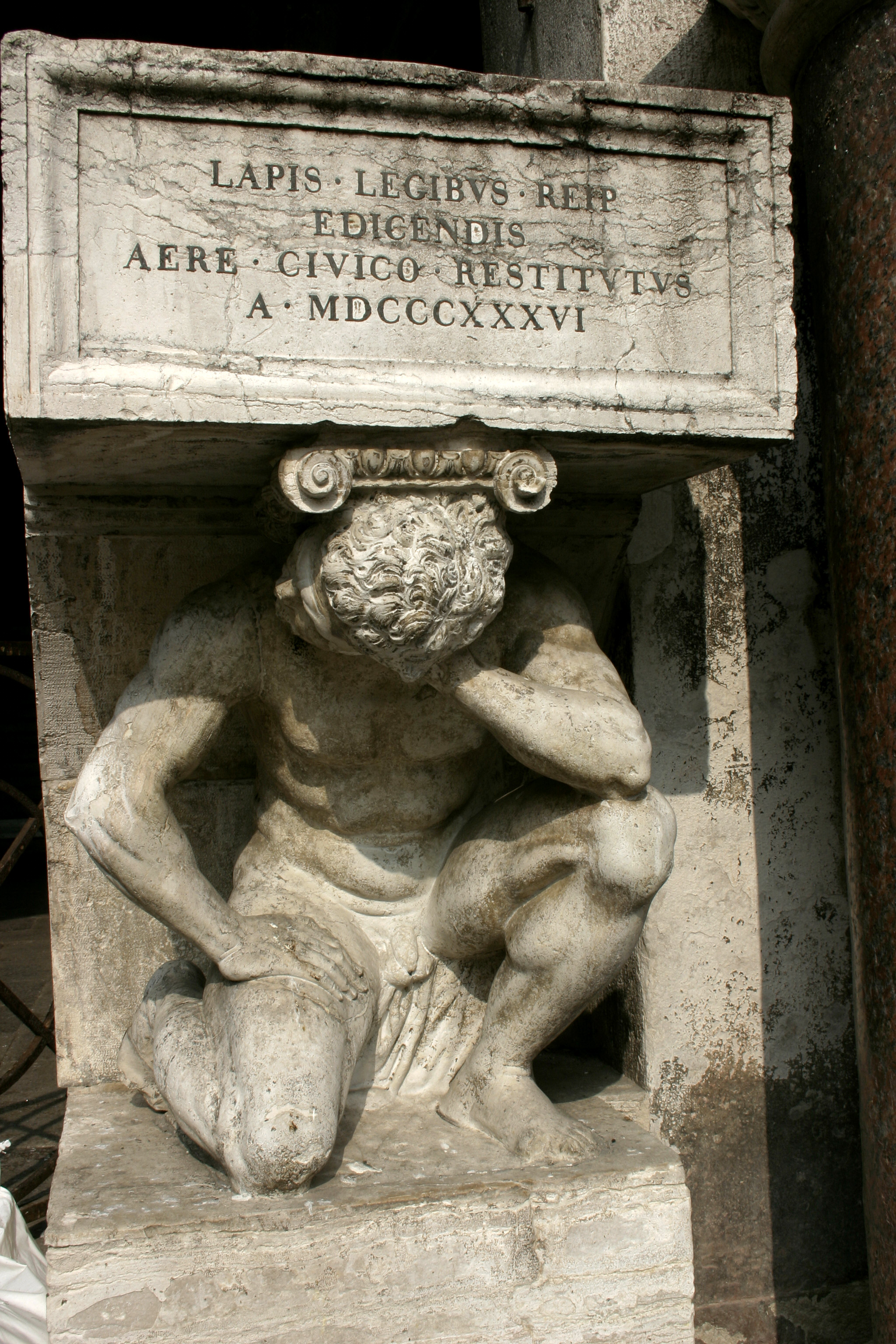 Venice – Il gobbo di Rialto